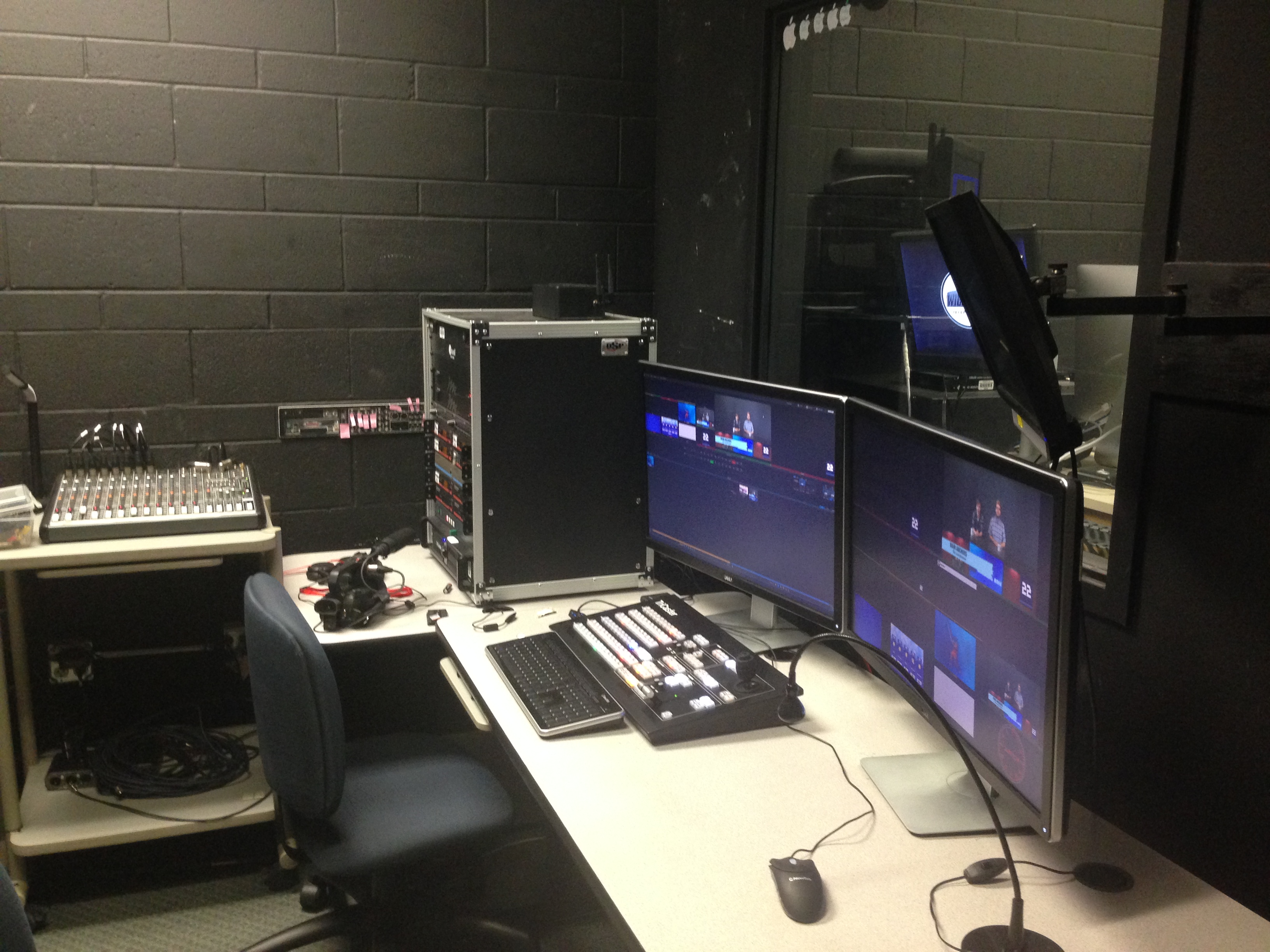 Inside the control room, this is where lights, audio, and video is controlled.